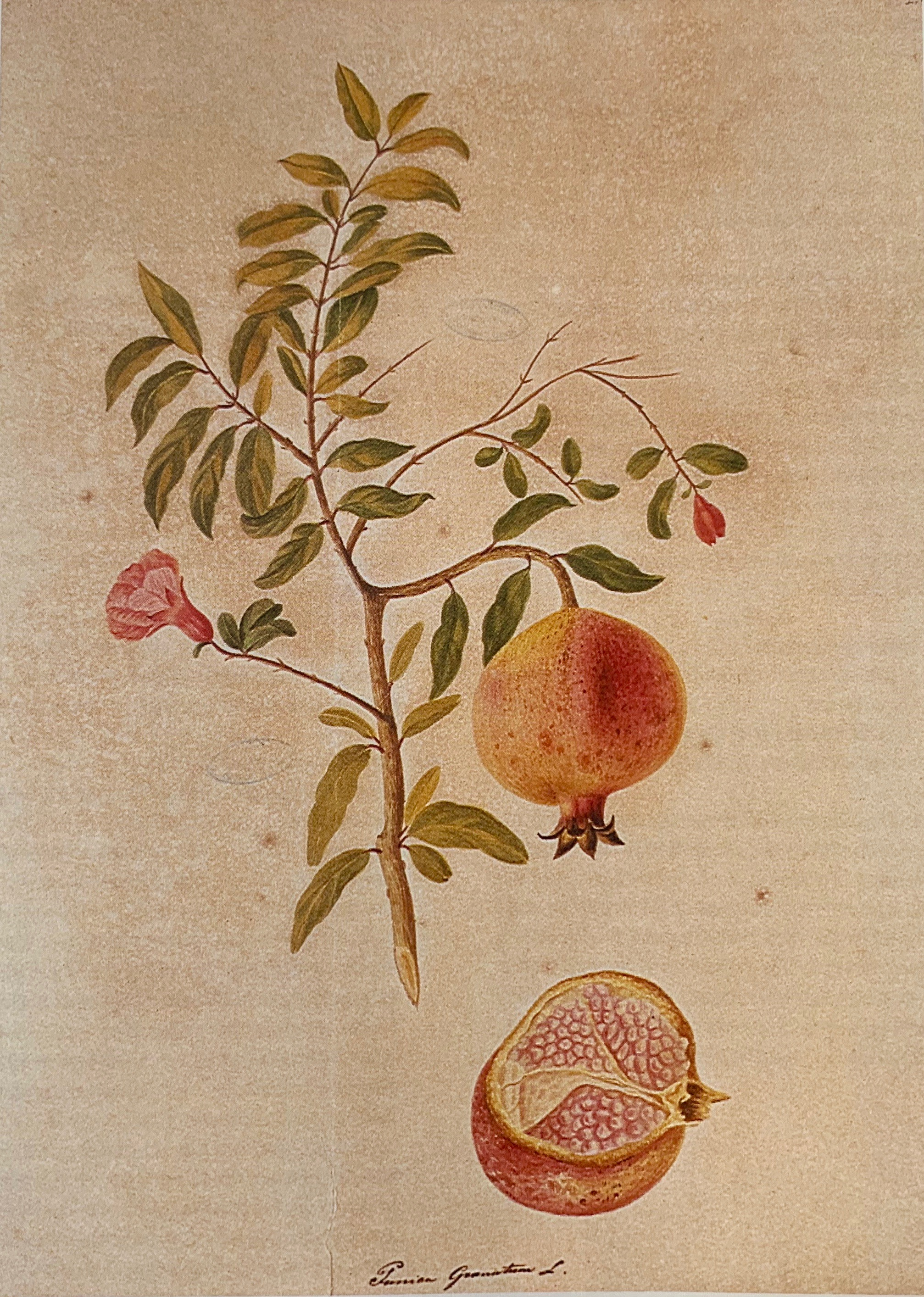 Botanical drawing of a pomegranate (Punica Granatum), painted by the Surinam artist Gerrit Schouten in 1823. Size: 42,3 x 56,7 cm. Collection Surinaams Museum in Paramaribo, inventory number S295-I.15. Depicted are: a branch of the pomegranate tree with leaves, a bud, a flower and a fruit. At the bottom a cut fruit.